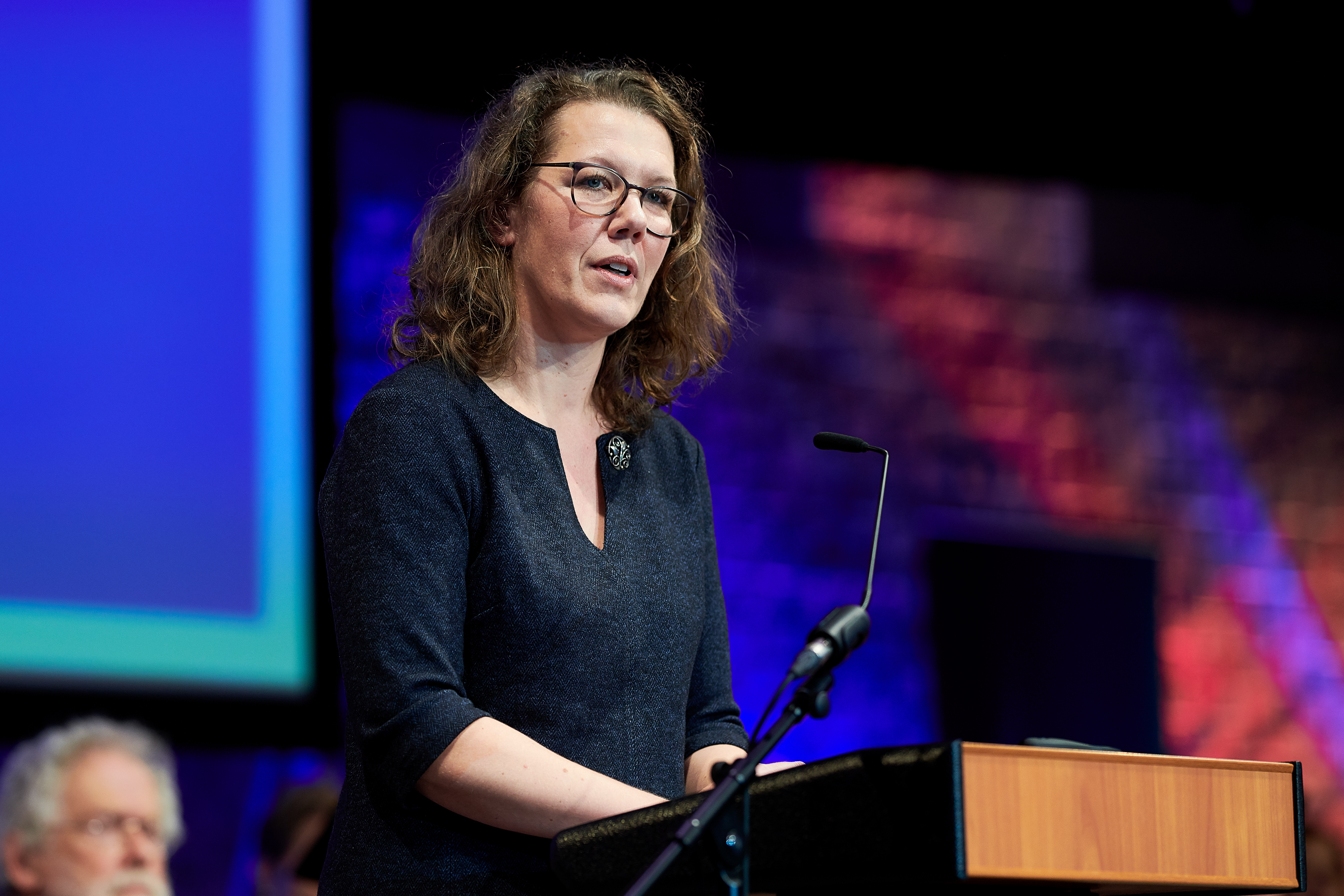 Iris Rauskala, the Austrian Federal Minister of Education, Science, and Research making a speech at the Inauguration of the Central European University Vienna Campus on November 15, 2019 in Expedithalle, Vienna.